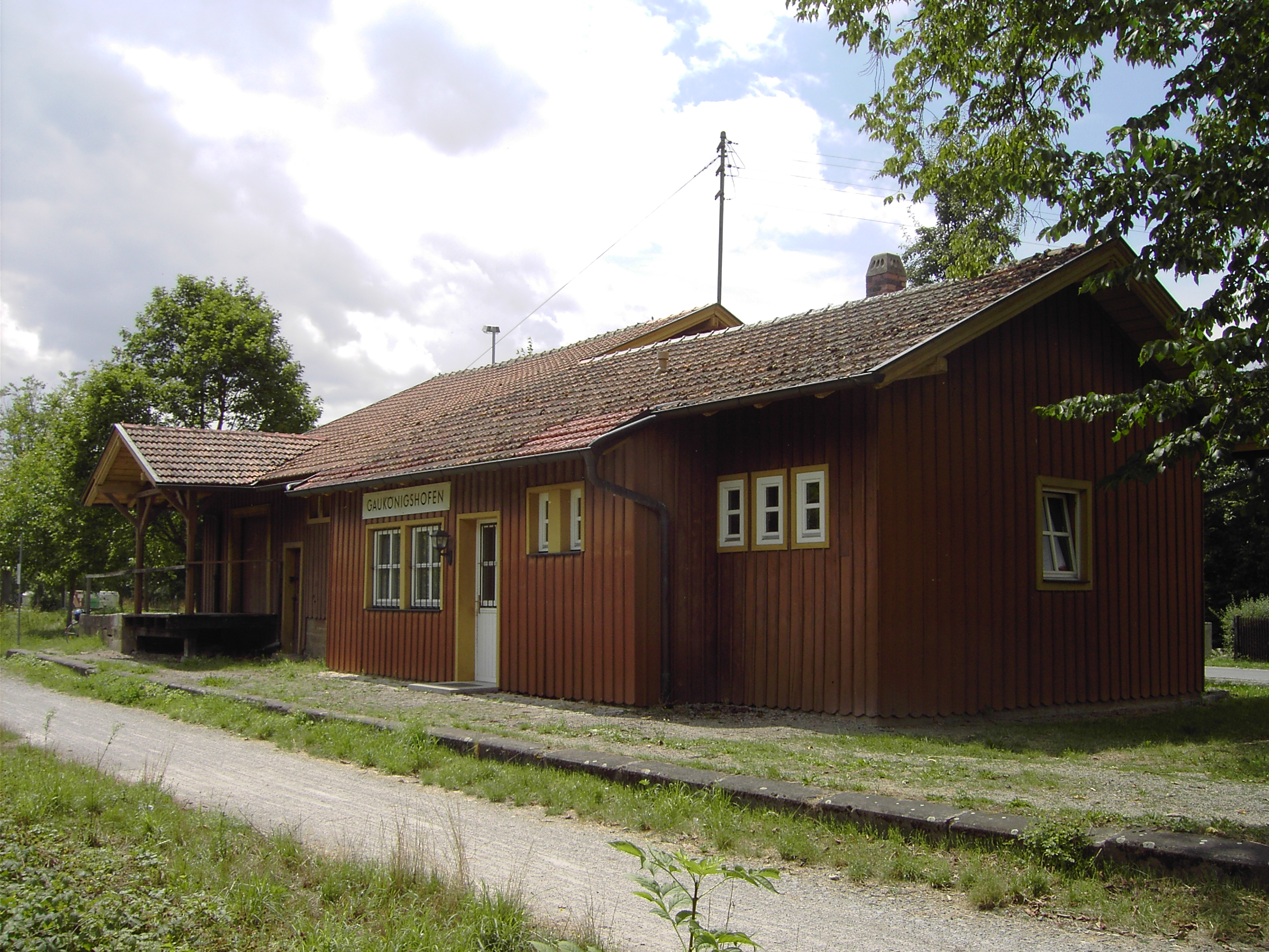 Entrance building of the train station Gaukönigshofen at the former Gaubahn Ochsenfurt - Weikersheim.